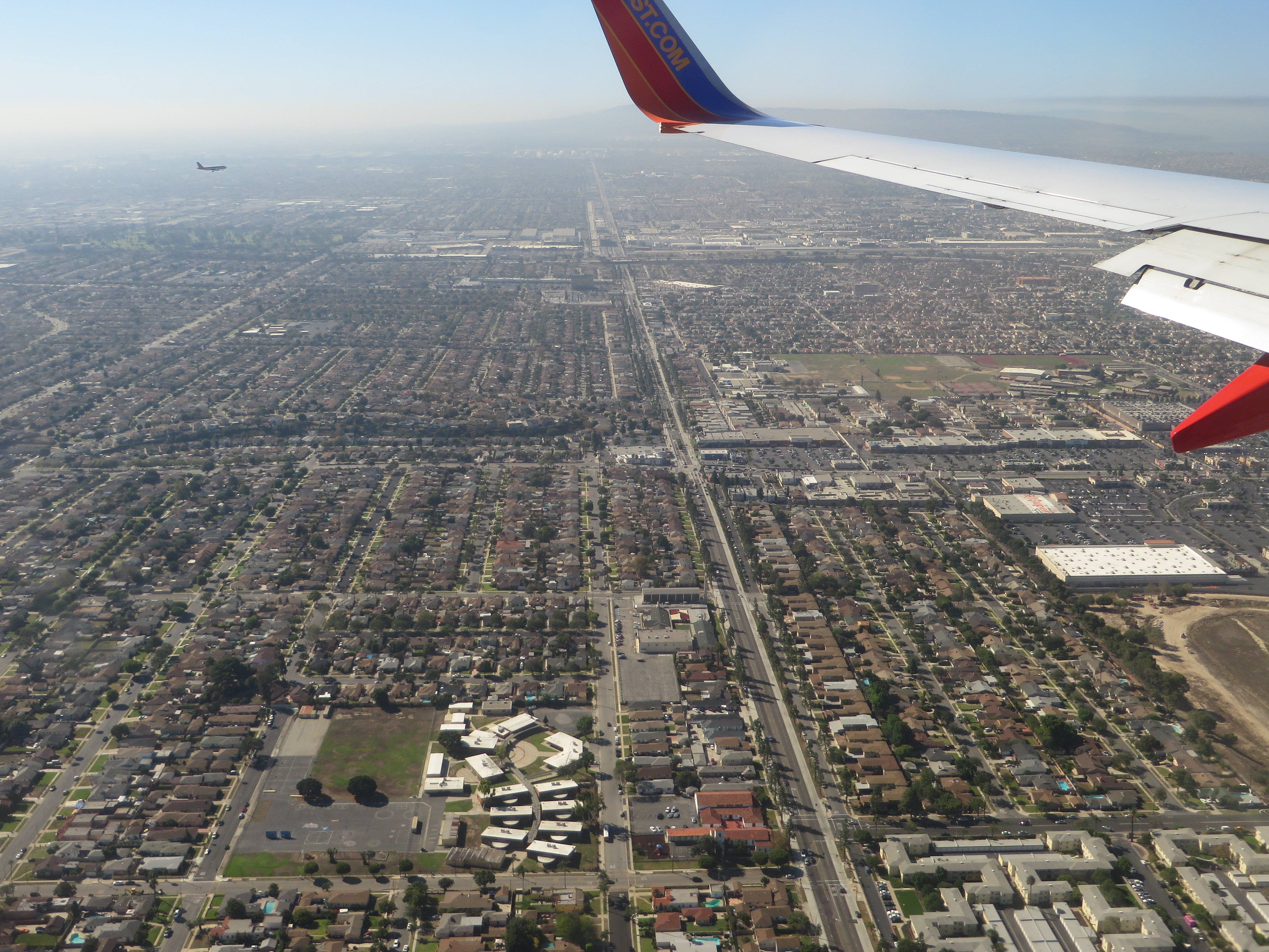 Crenshaw Boulevard is a major thoroughfare street in Los Angeles, California that runs through, and outside, the Crenshaw district. The street starts at Wilshire Boulevard in Hancock Park and runs through several demographically diverse areas to end in Rolling Hills. Tracks for the No. 5 Los Angeles Railway "yellow" streetcars in the 1920s through 1950s ran in the median between Leimert Boulevard on the north to near Florence Ave on the south. Since the abandonment of the streetcars, the former railway median has been narrowed, the driving lanes improved and the street reconfigured. Many local residents were disappointed to see 71 mature trees chopped down to make way for the Space Shuttle Endeavour to be moved from LAX to the California Science Center. Additional trees were to be removed for the under construction Crenshaw/LAX Line, but various officials have promised an aesthetically cohesive boulevard with more trees being planted than were removed. The name "Crenshaw" has become associated with African-American culture because it traverses as a large black community. Crenshaw Boulevard has been mentioned in hip hop songs by artists such as Eminem, Eazy-E, Nas, 2Pac, Montell Jordan, DJ Quik, Raekwon from the Wu-Tang Clan, Skee-Lo, Dr. Dre, The Game, Nipsey Hussle, Dom Kennedy, MC Allergy, and The Pharcyde. The street was named in 1904 after banker and real estate developer George Lafayette Crenshaw. The street also has a history of Sunday night "gatherings", where a large number of cars would meet up. However, due to a police crackdown, this tradition has now declined.